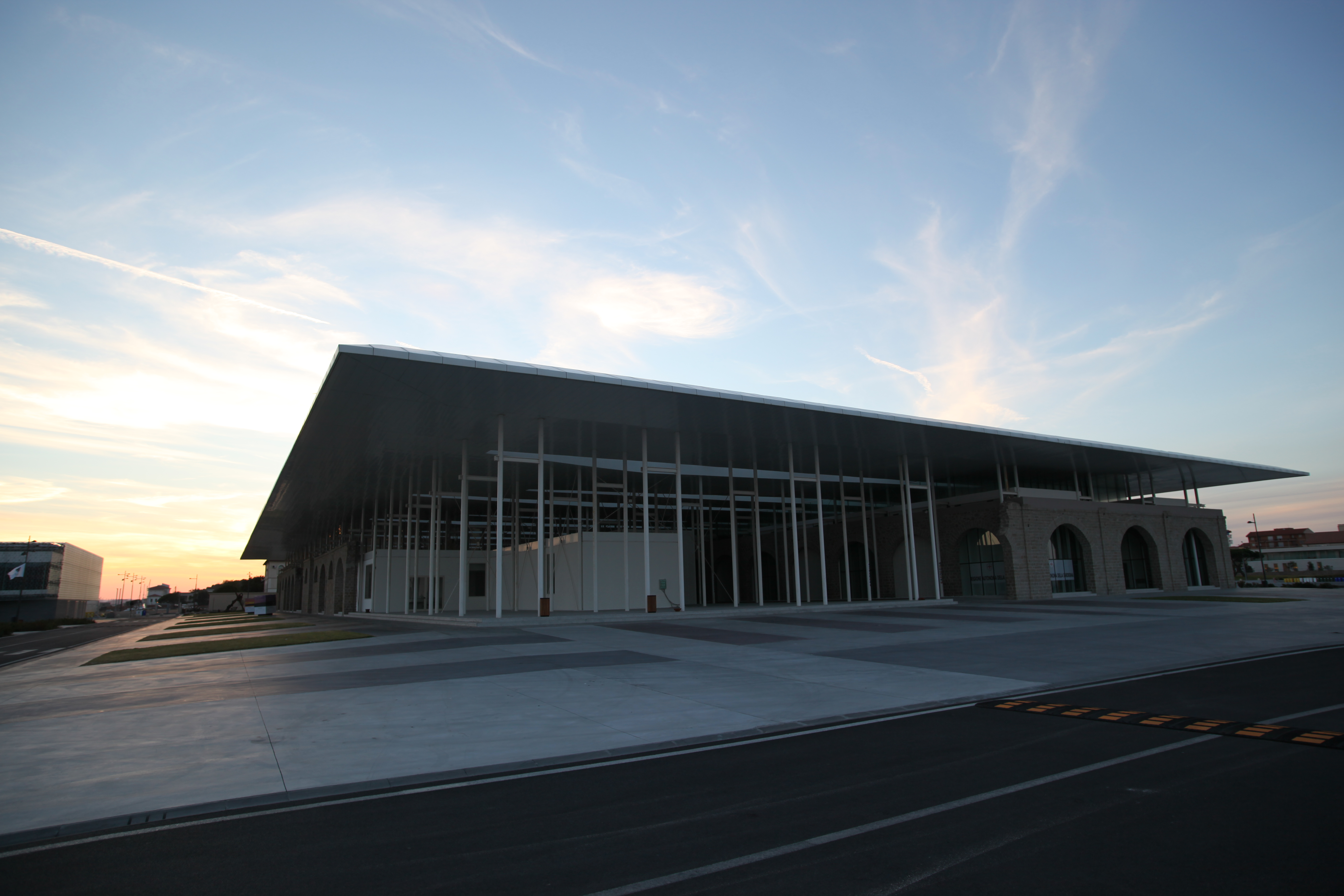 Arsenale (g8 summit la maddalena) la maddalena - sardinia - sardegna